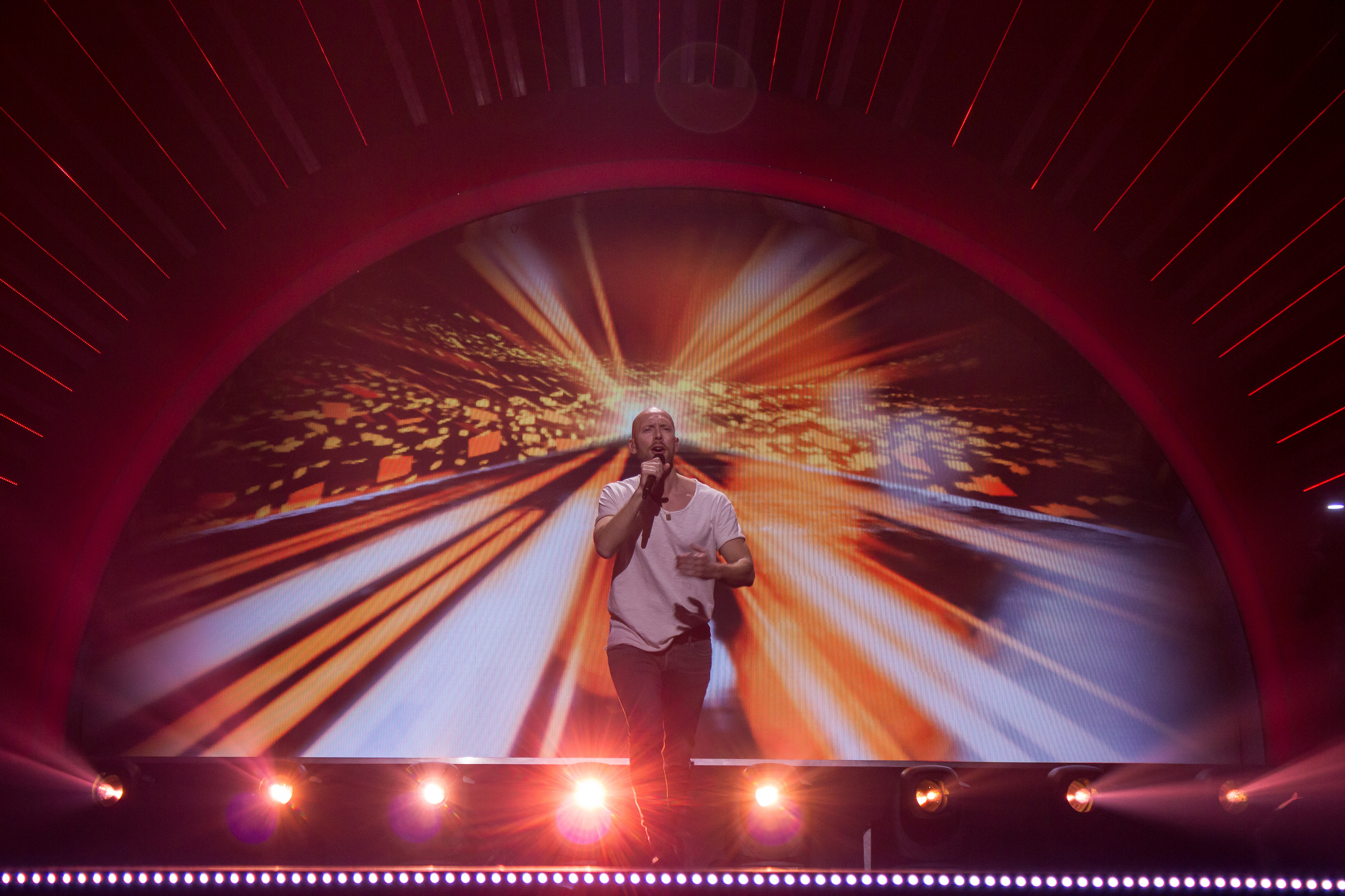 At the 2018 Danish Melodi Grand Prix